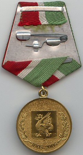 Reverse of the medal 1000 Years of Kazan